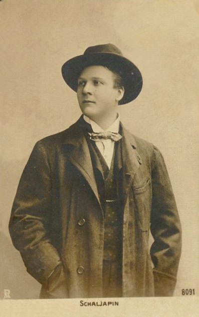 Russian bass, Feodor Chaliapin (1873 - 1938)